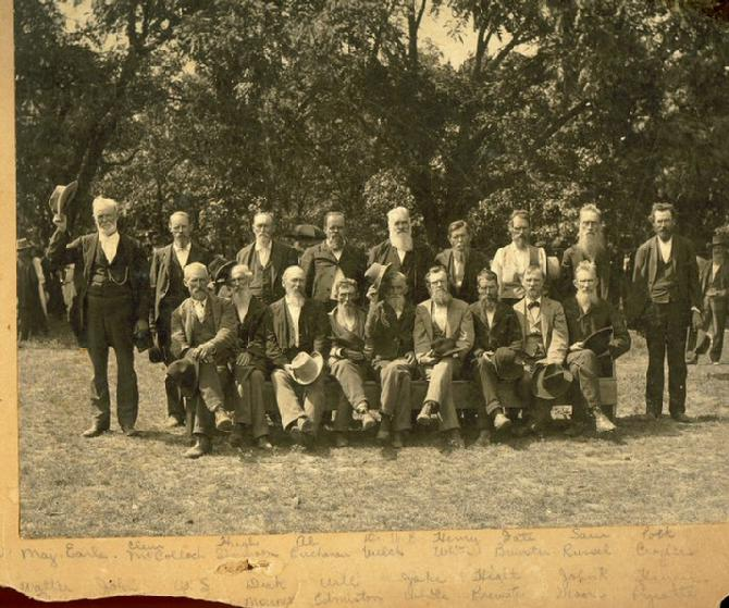 Survivors of Company B, 34th Arkansas Regiment, CSA, at a Reunion near Cane Hill, Arkansas, ca. 1895-1905, when reunions were held at Park's Grove, Arkansas, near Cane Hill.